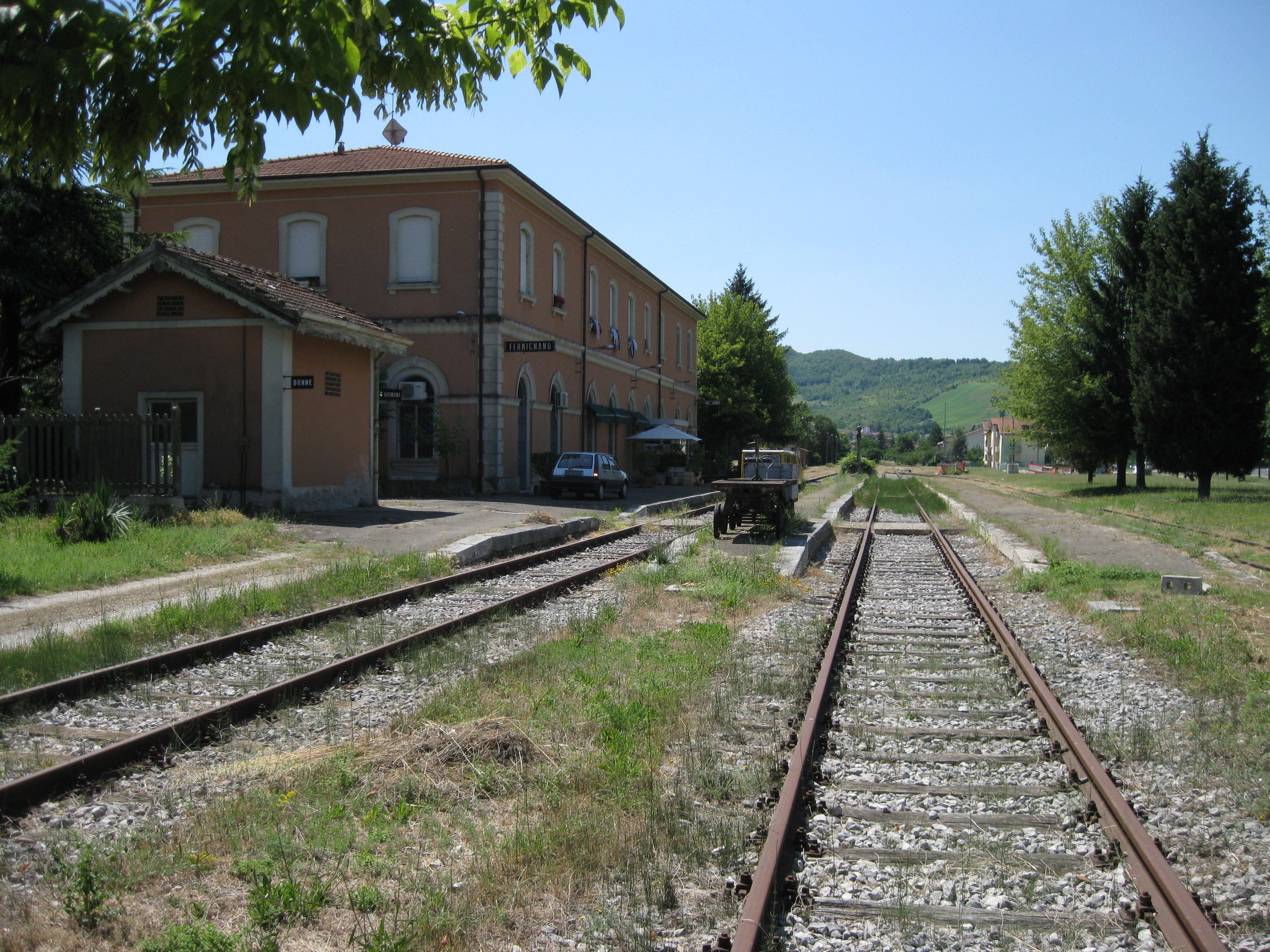 Disused train station in Fermignano, Italy